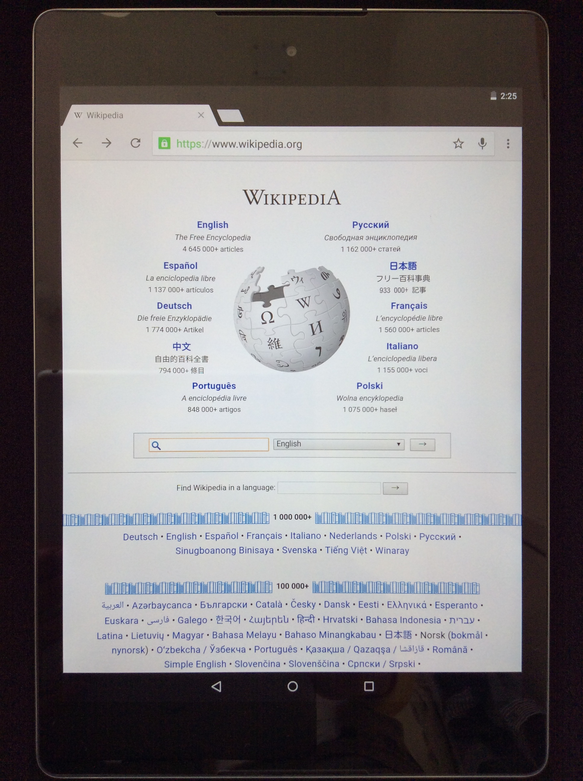 Nexus 9 - Google & HTC